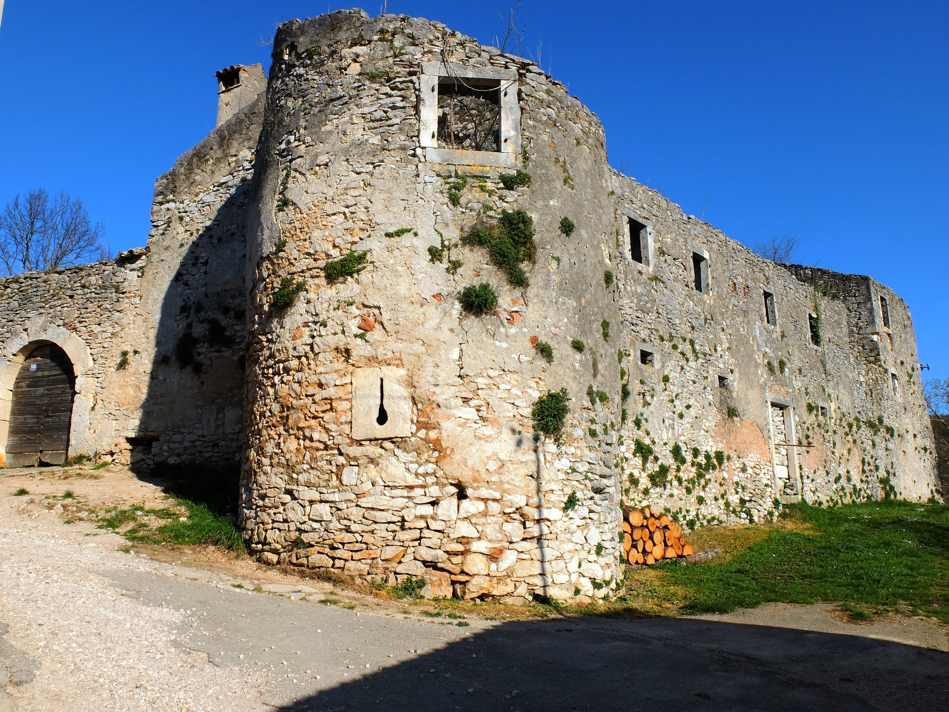 Ruins of medieval castle Šumber, in Istria, Croatia